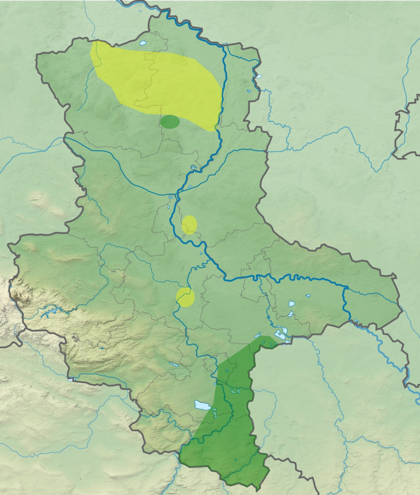 Distribution area of the Wahlitz group in Saxony-Anhalt. Yellow: early stage; green: late stage